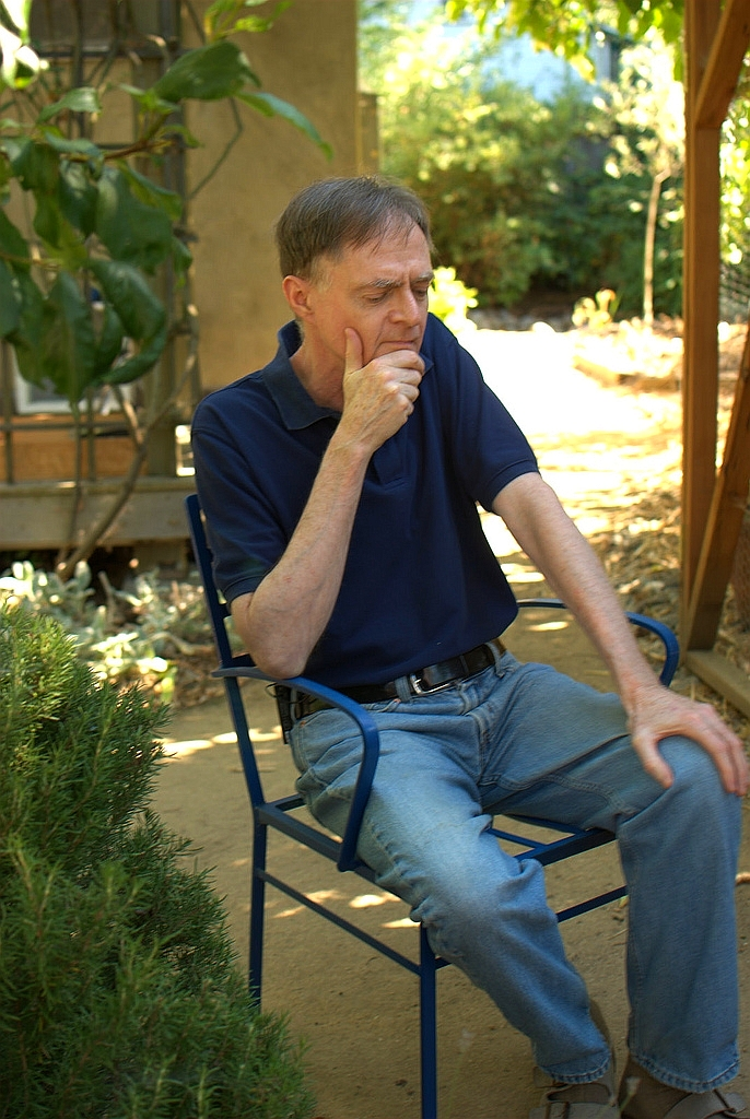 Richard Heinberg in his house in Santa Rosa, California